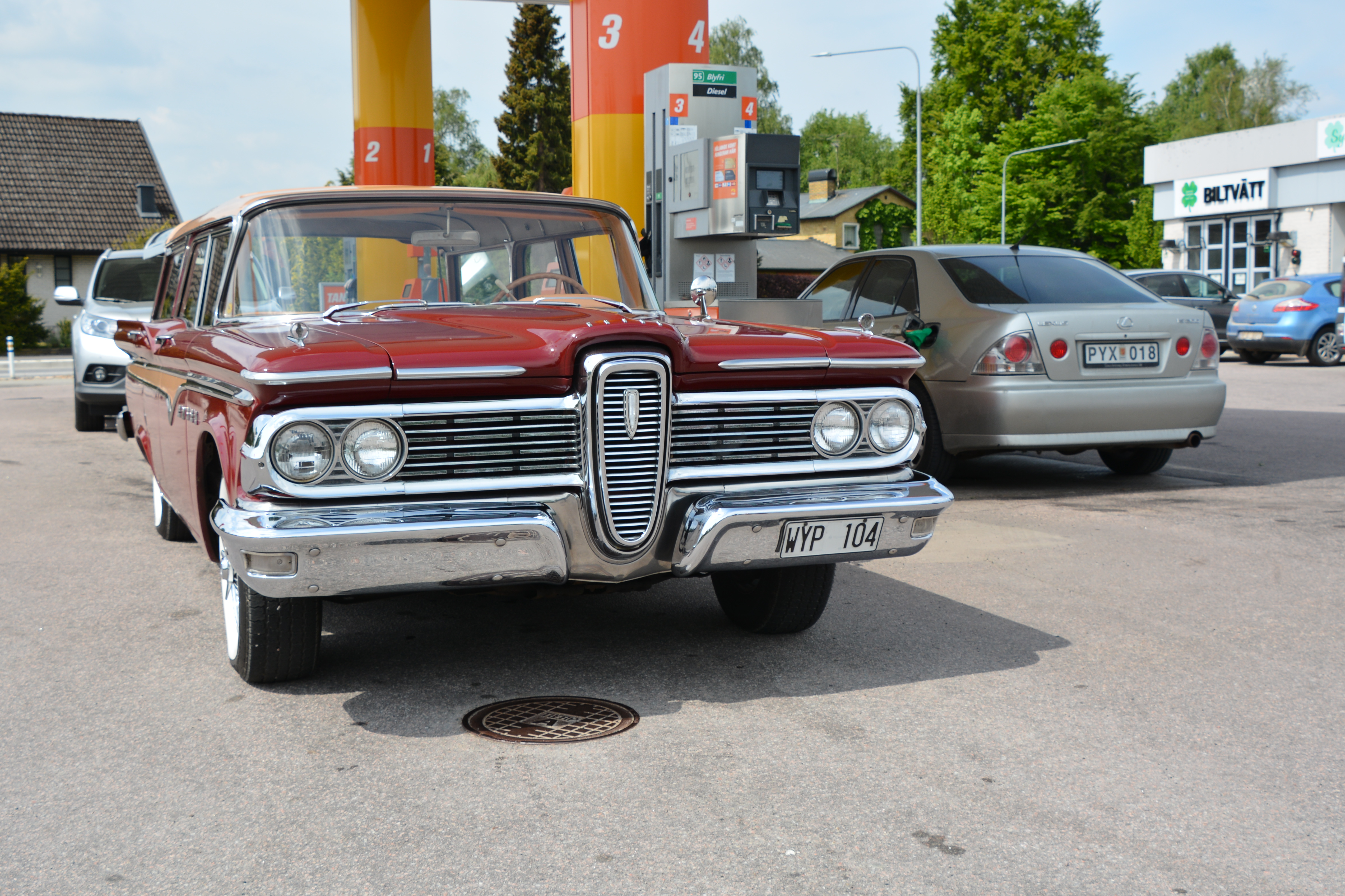 Edsel Corsair, maj 2007, Höör, Sweden